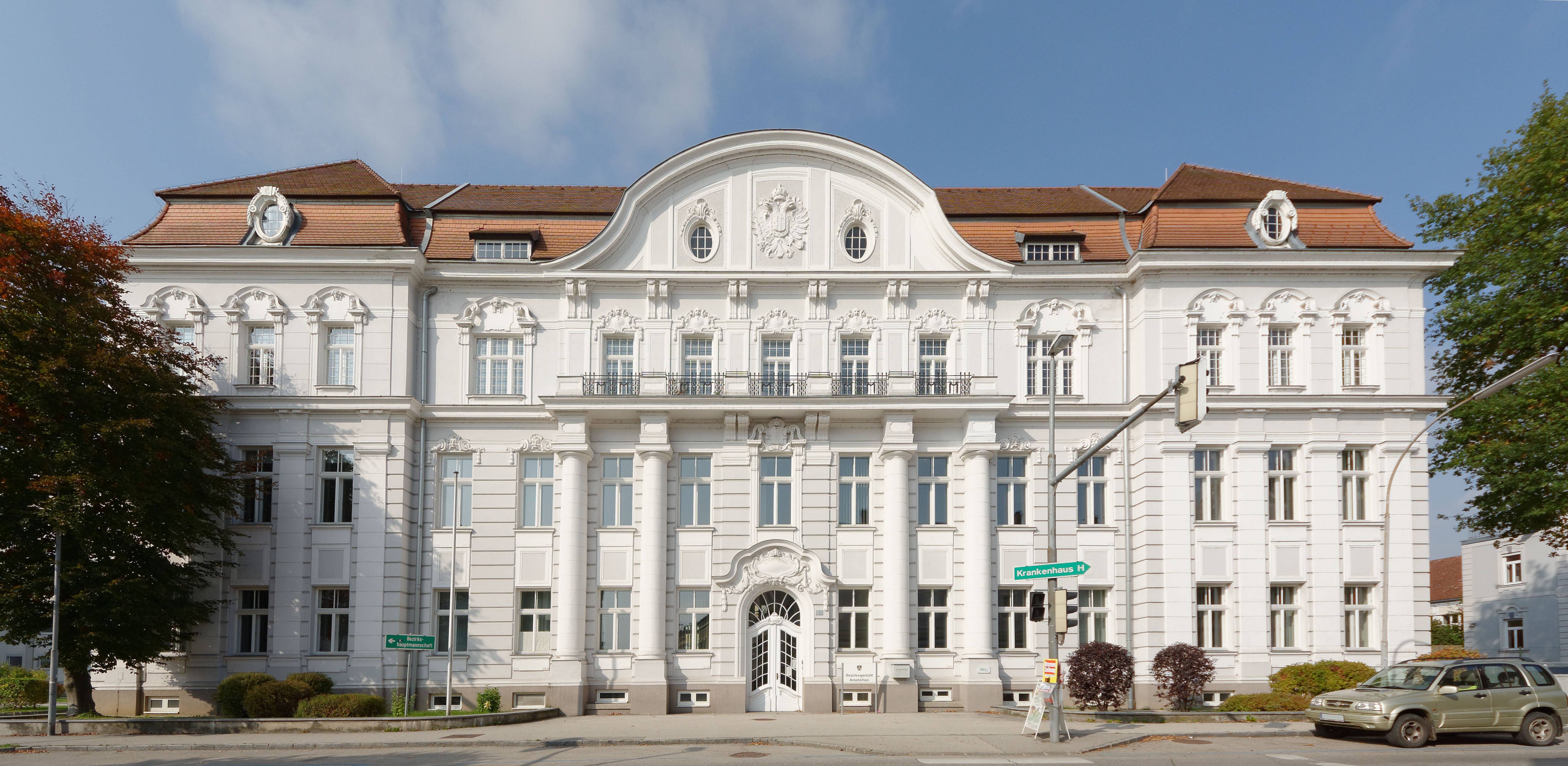 District court in Amstetten, Lower Austria, Austria